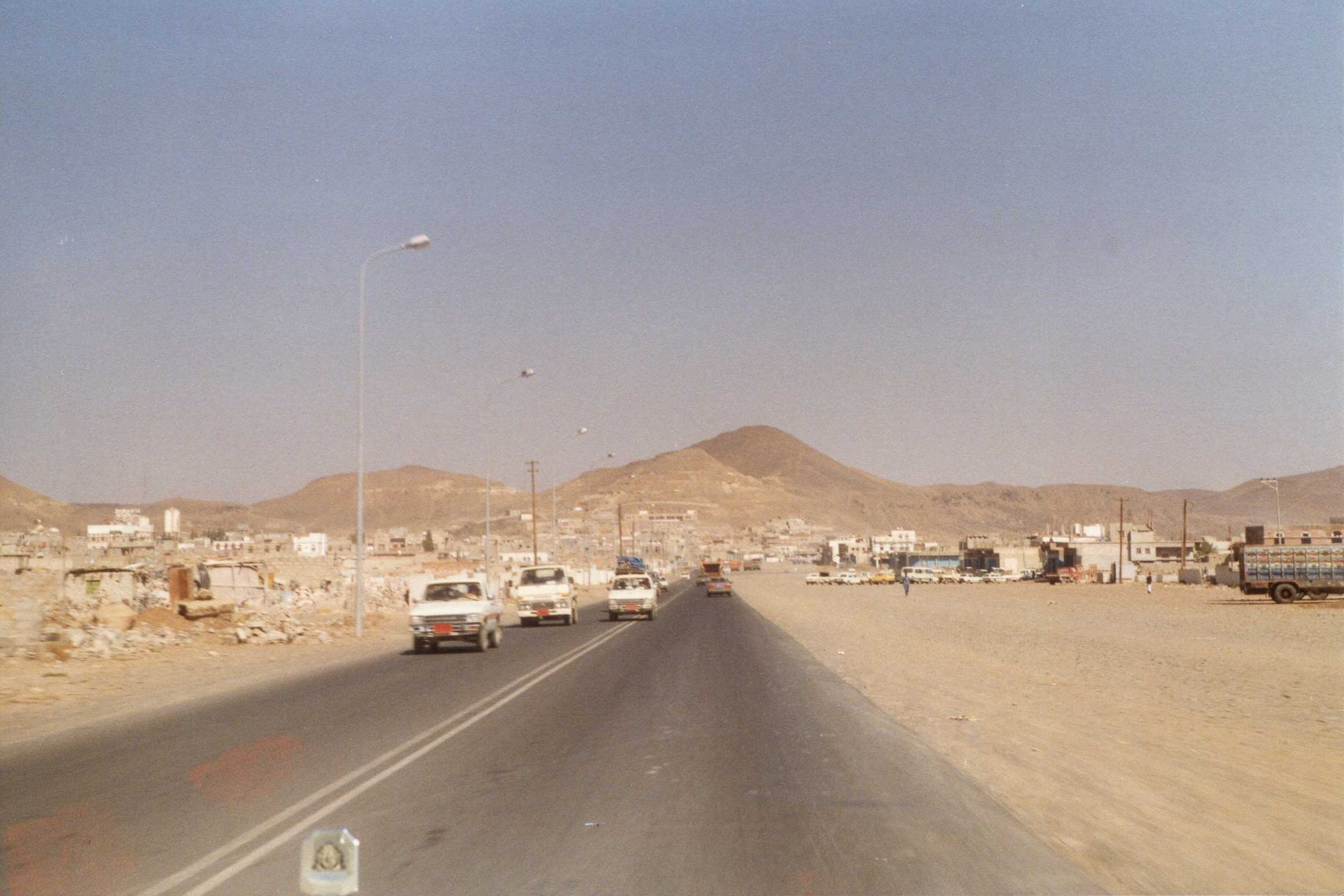 Going upcountry